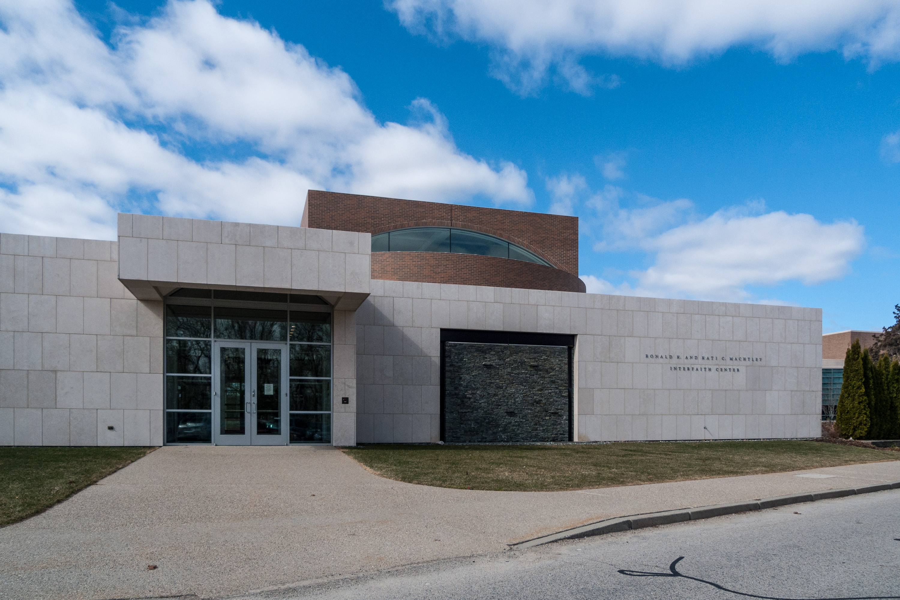 Interfaith Center, Bryant University, Smithfield, Rhode Island